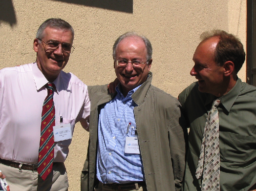 Robert Cailliau, Jean-François Abramatic and Tim Berners-Lee at the 10th anniversary of the WWW Consortium.